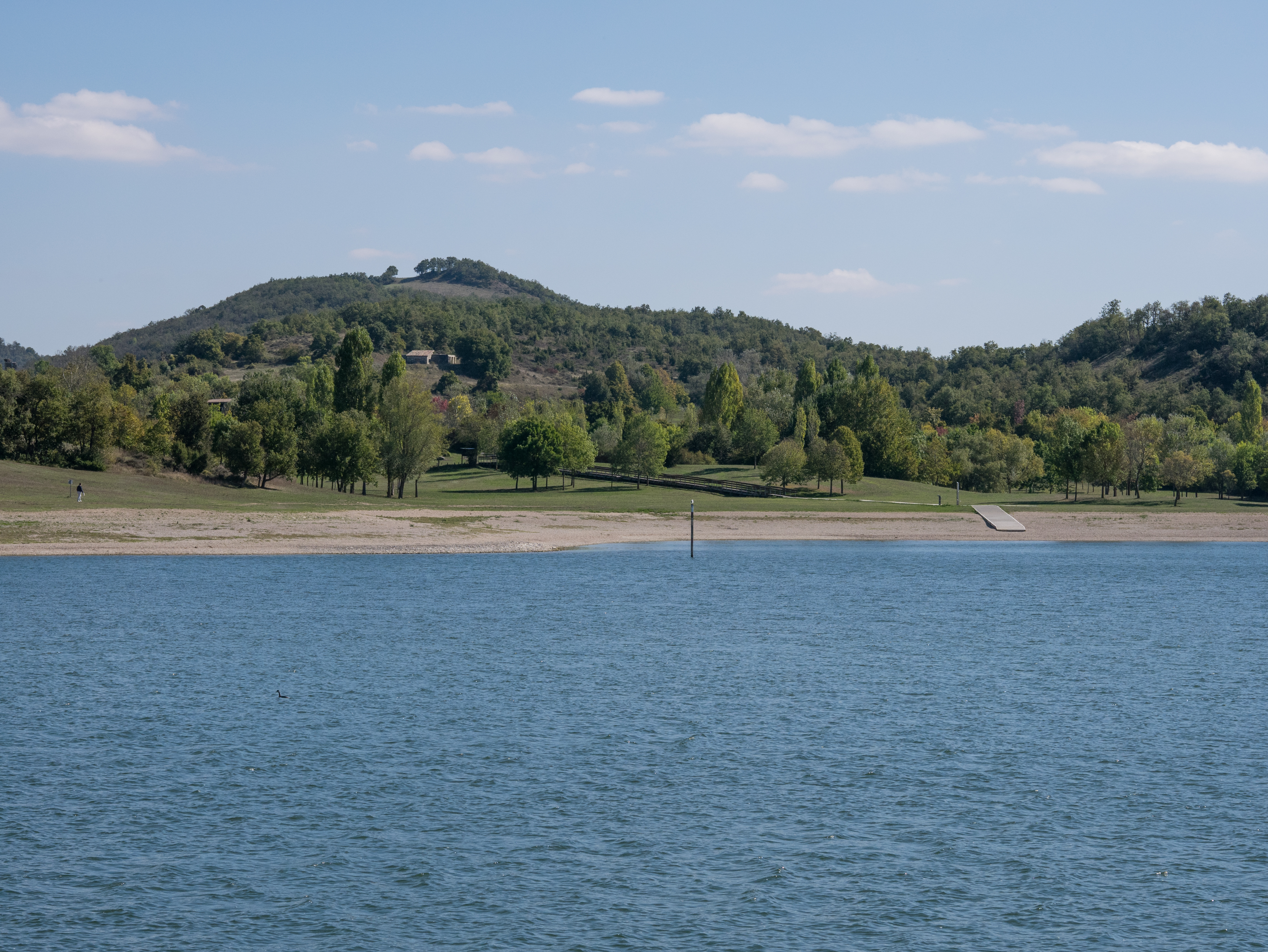 Garaio beach, Ullíbarri-Gamboa reservoir. Álava, Basque Country, Spain